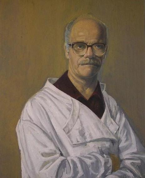 Self-portrait of Manuel Pereira da Silva.